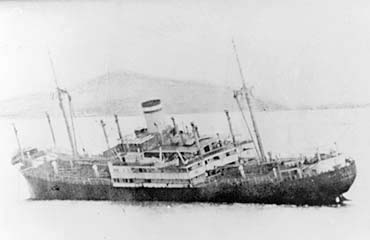 The German steamer Roda listing to port after being fired upon by the Norwegian destroyer HNoMS Æger. She sank a short time later.